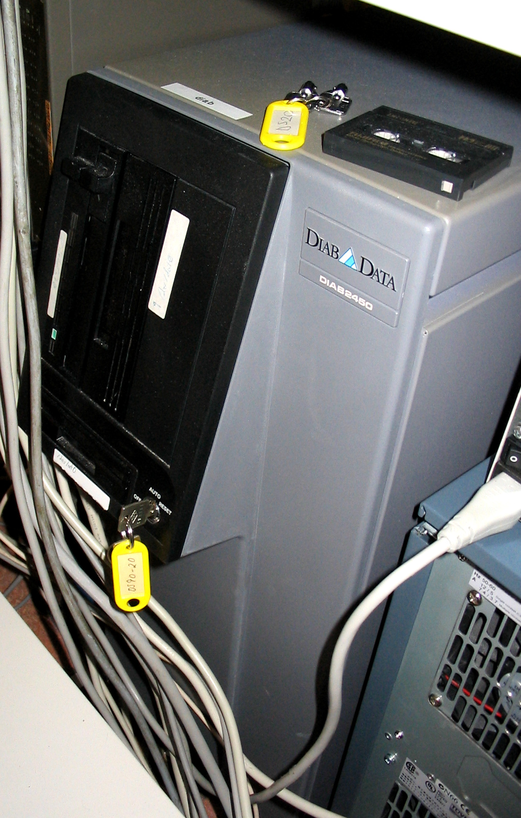 A DIAB2450 Unix computer from the 1990ies